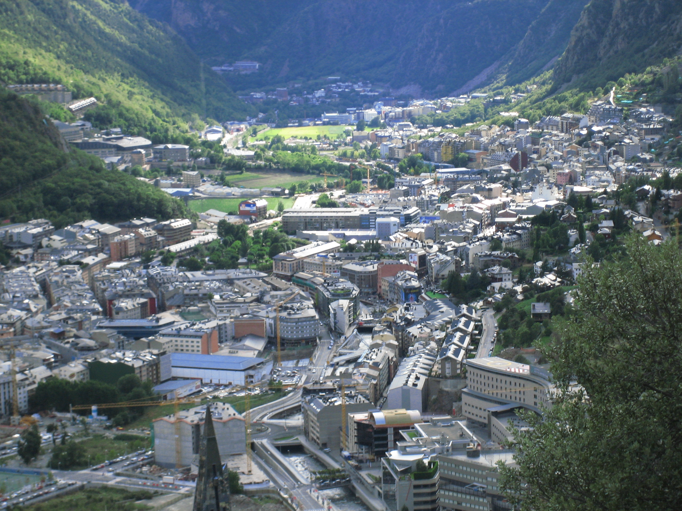 View of Andorra la Vella and Escaldes-Engordany, Andorra